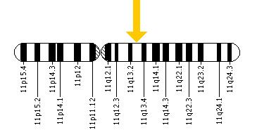 The IGHMBP2 gene is located on Chromosome 11q13.3. The gene codes the immunoglobulin µ-binding protein. In SMARD1 patients, the gene is mutated causing characteristic muscular atrophy in infants.